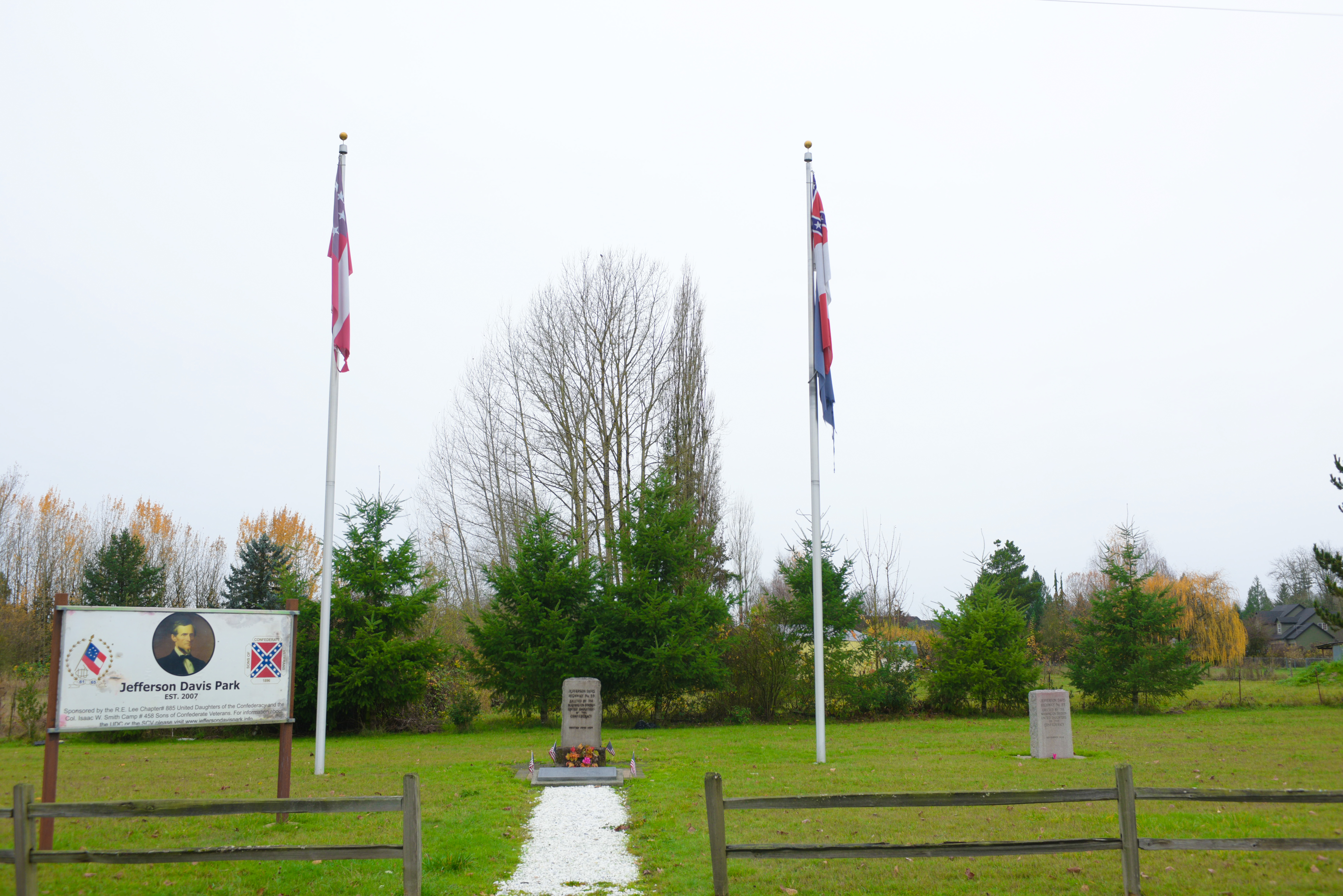 Jefferson Davis Park as seen from Interstate 5, near Ridgefield, Washington